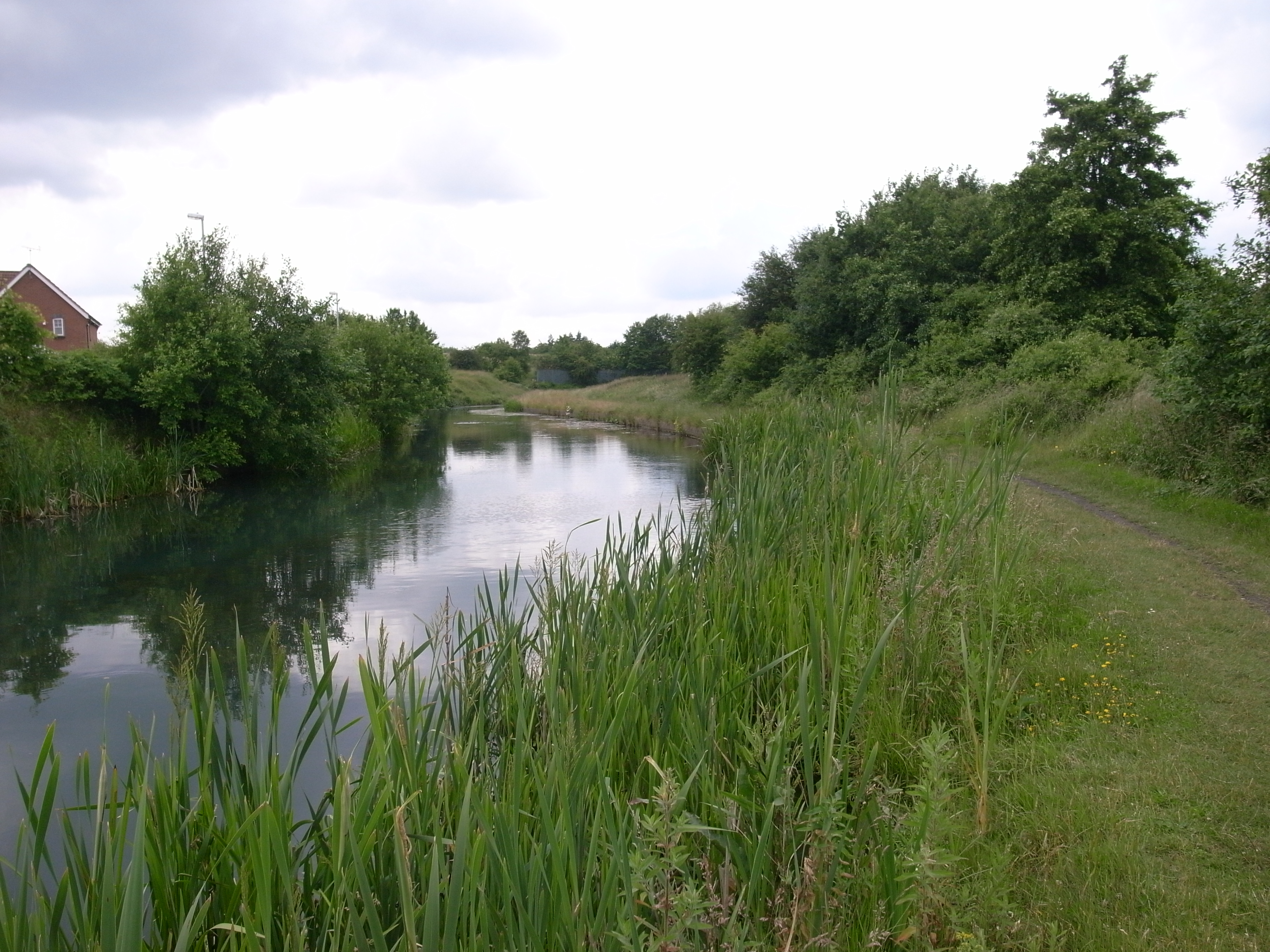 Part of the Wednesbury Oak Loop canal near Bradeley, West Midlands, England.